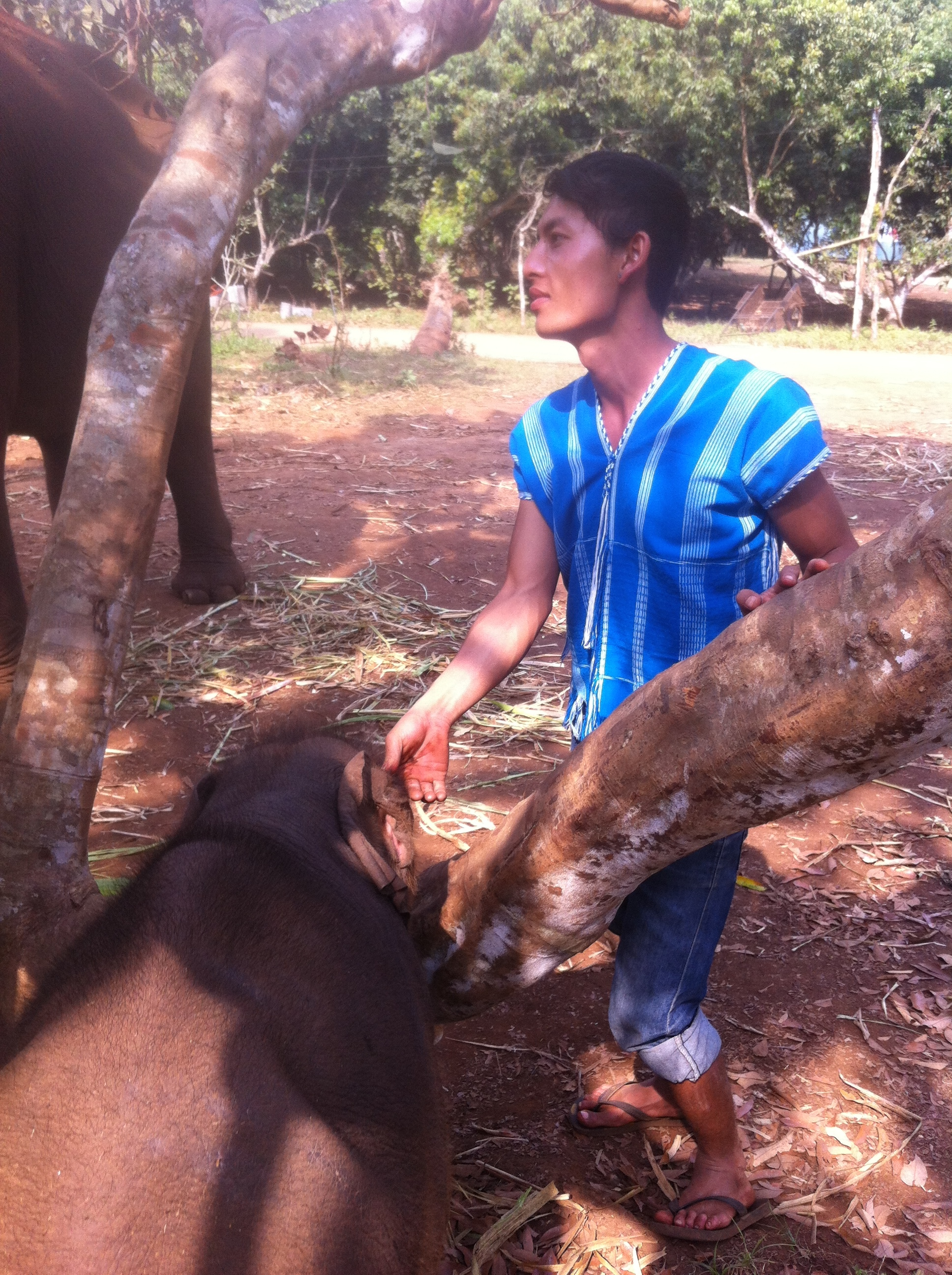 A mahout at Patara Elephant Farm near Chiang Mai, Thailand. He is wearing the shirt and pants traditionally worn by mahout.